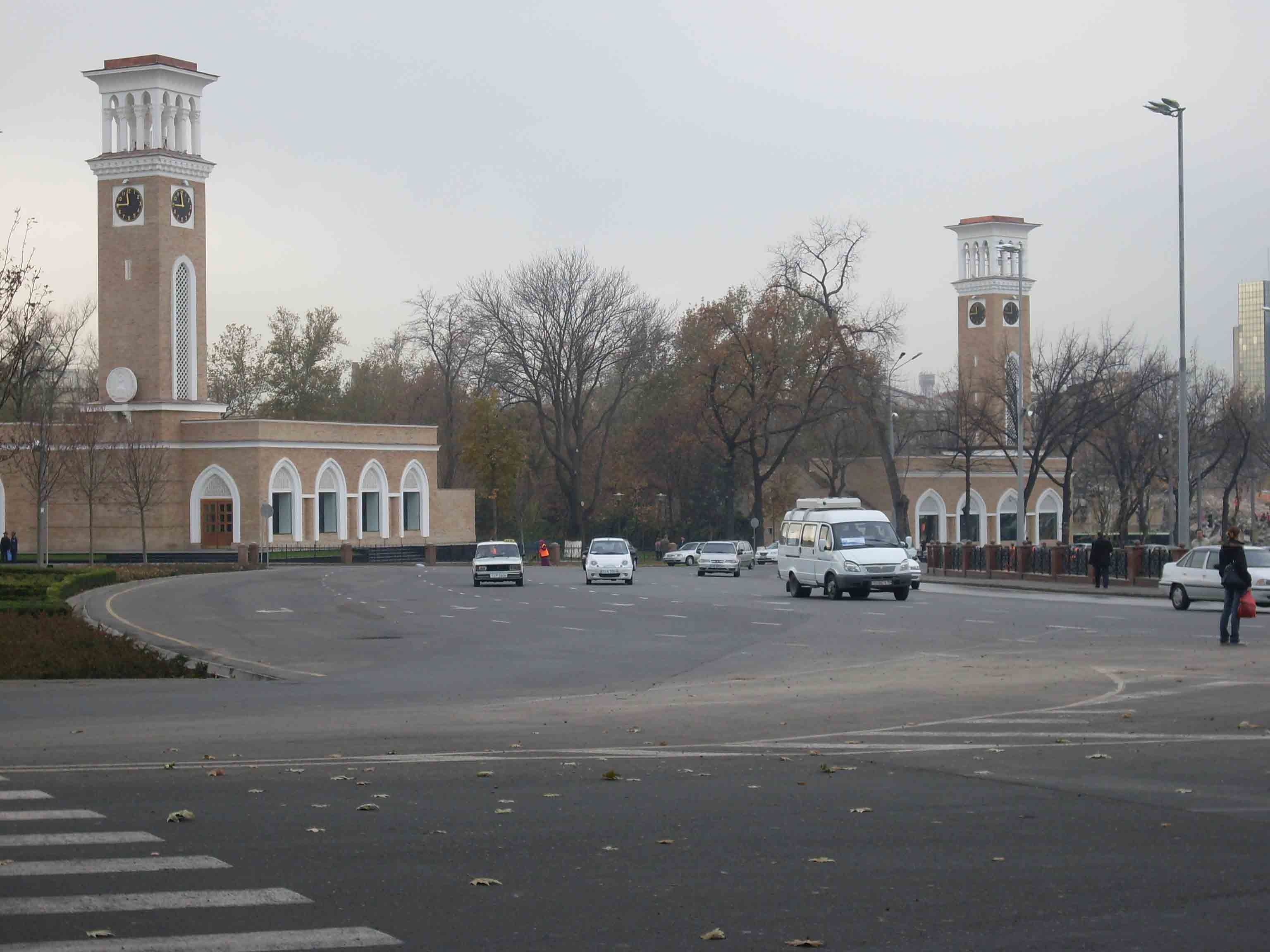 Kuranty